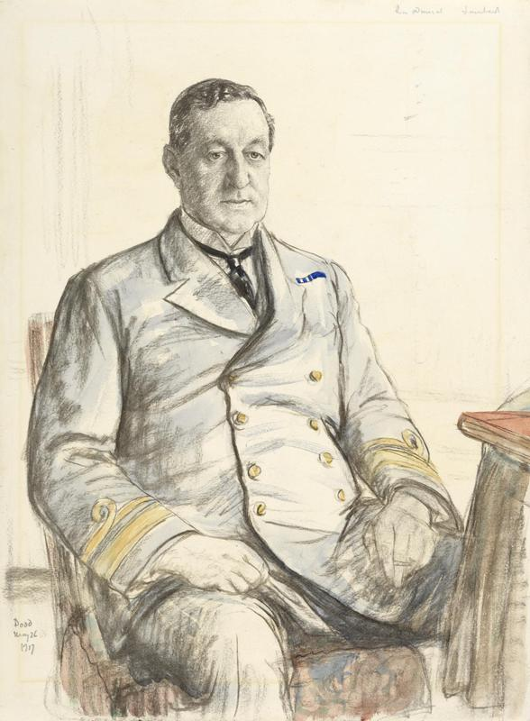 Rear-admiral Cecil Foley Lambert image: a three quarter length portrait of Rear Admiral Cecil Lambert in Royal Navy uniform, sitting on a chair looking directly at the viewer, with a book on a table to the right.